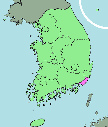 area map of Busan